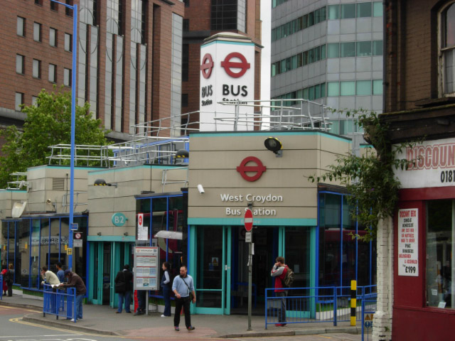 West Croydon Bus Station This curious squat building on Station Road, close to West Croydon railway station, is a major transport hub for London's southern suburbs.